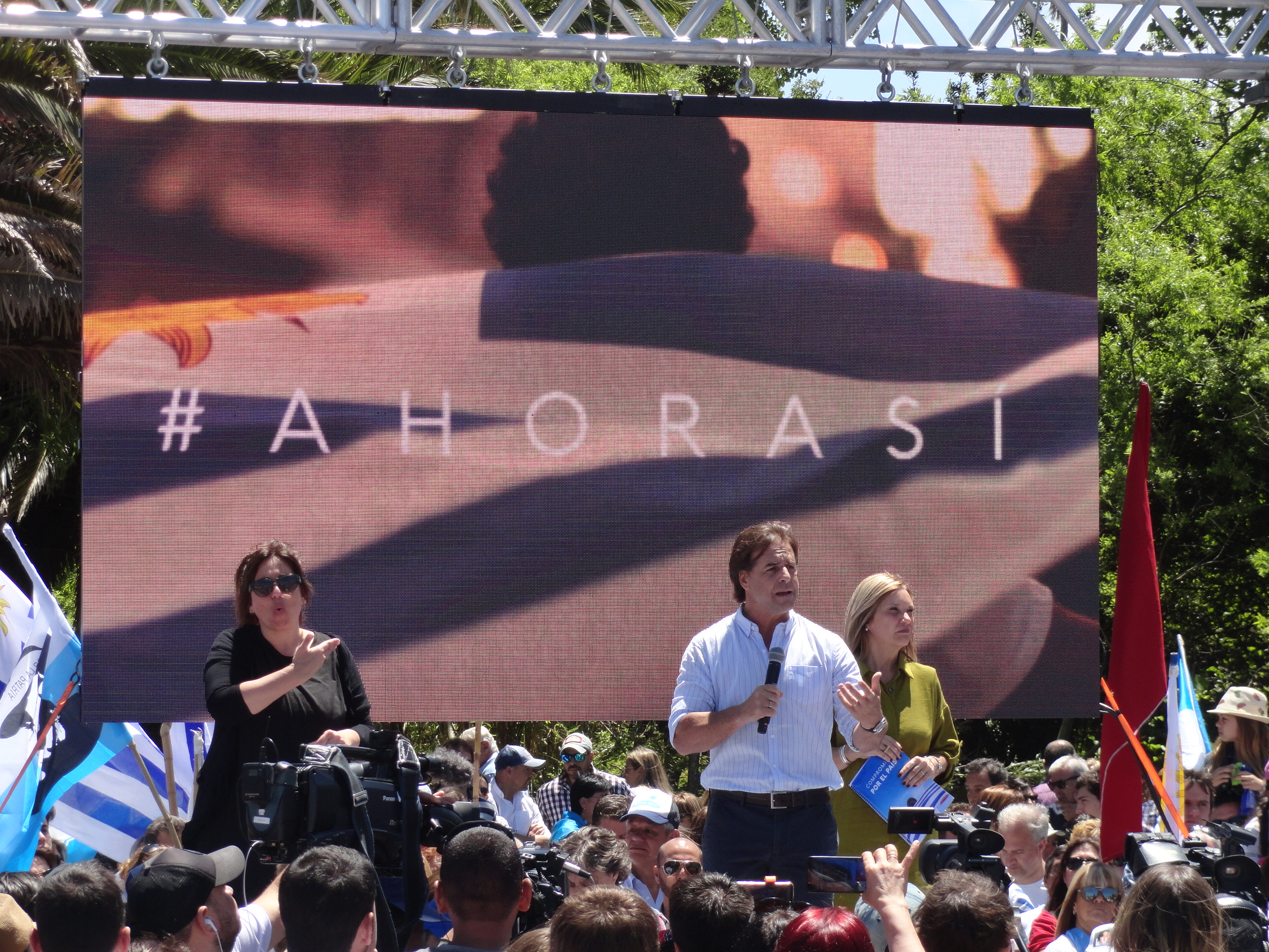 Meeting at the Molino de Pérez by the "Compromiso por el país" coalition, before the second round of the 2019 Uruguay national elections.